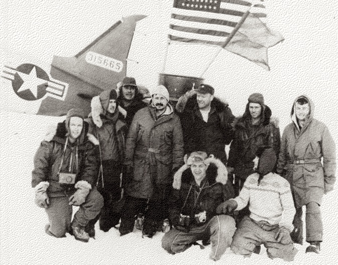 The first landing of an airplane on an ice floe at the North Pole, 3 May 1952 -- Albert Crary, chief scientist, is fourth from left. (Photo credit: National Air and Space Museum/U.S. Air Force [NASM/USAF photo].) photo on file with National Science Foundation [all academic or educational uses of photo permitted]